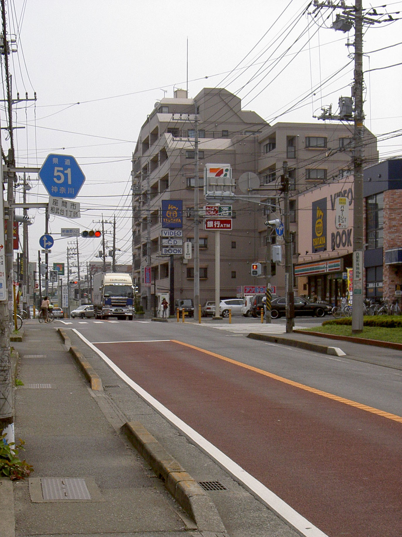 Kanagawa prefectural road route 51, in Zama city ja: 神奈川県道51号町田厚木線